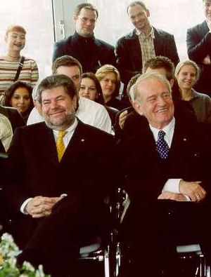 Kurt Beck and Johannes Rau